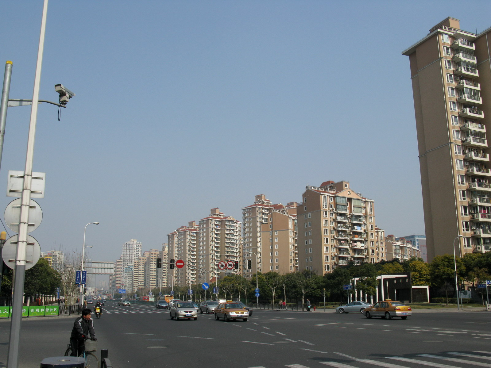 Dongfang Road, view towards Pujian Road